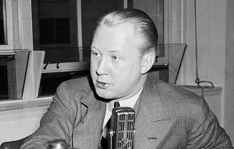 Dr. Frank N. Stanton of CBS, circa 1939